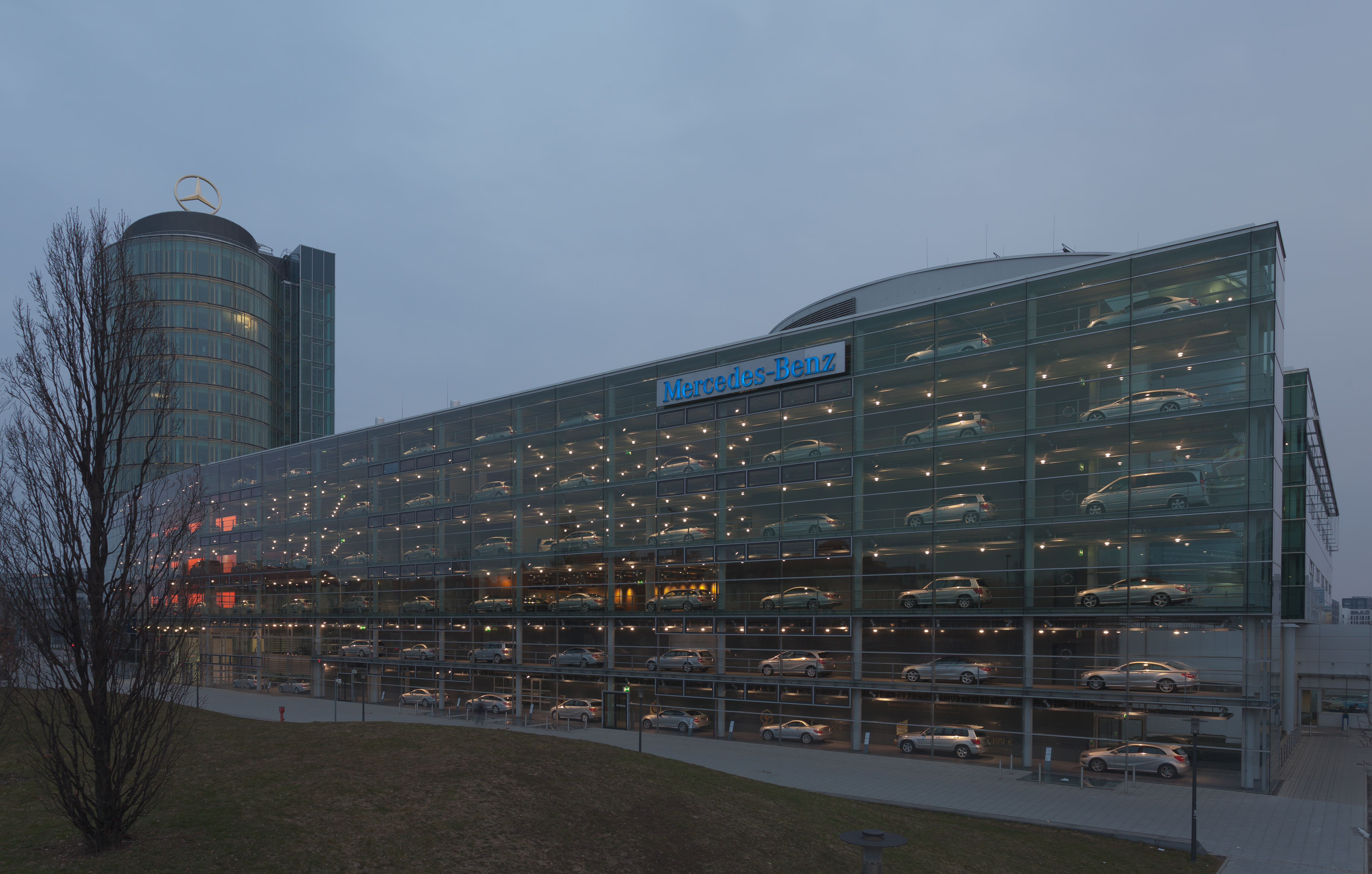 Mercedes-Benz dealership, Munich, Germany